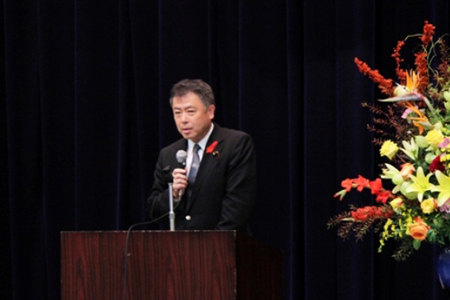 Mitsuru Sakurai, Senior Vice-Minister of Health, Labour and Welfare, addressed at the Central Government Building No.5 in Chiyoda Ward, Tōkyō Metropolis on October 3, 2012. (For terms of use, see 利用規約｜厚生労働省.)